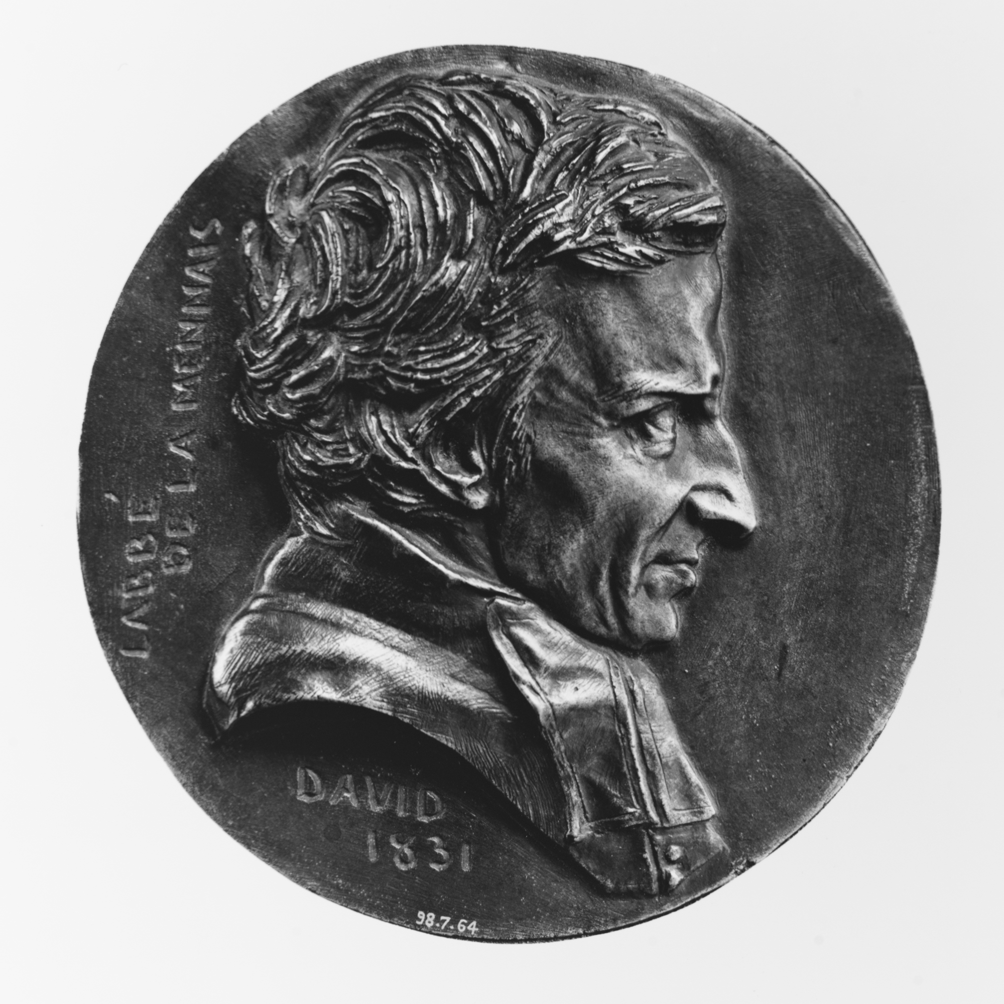 French; Medallion; Medals and Plaquettes